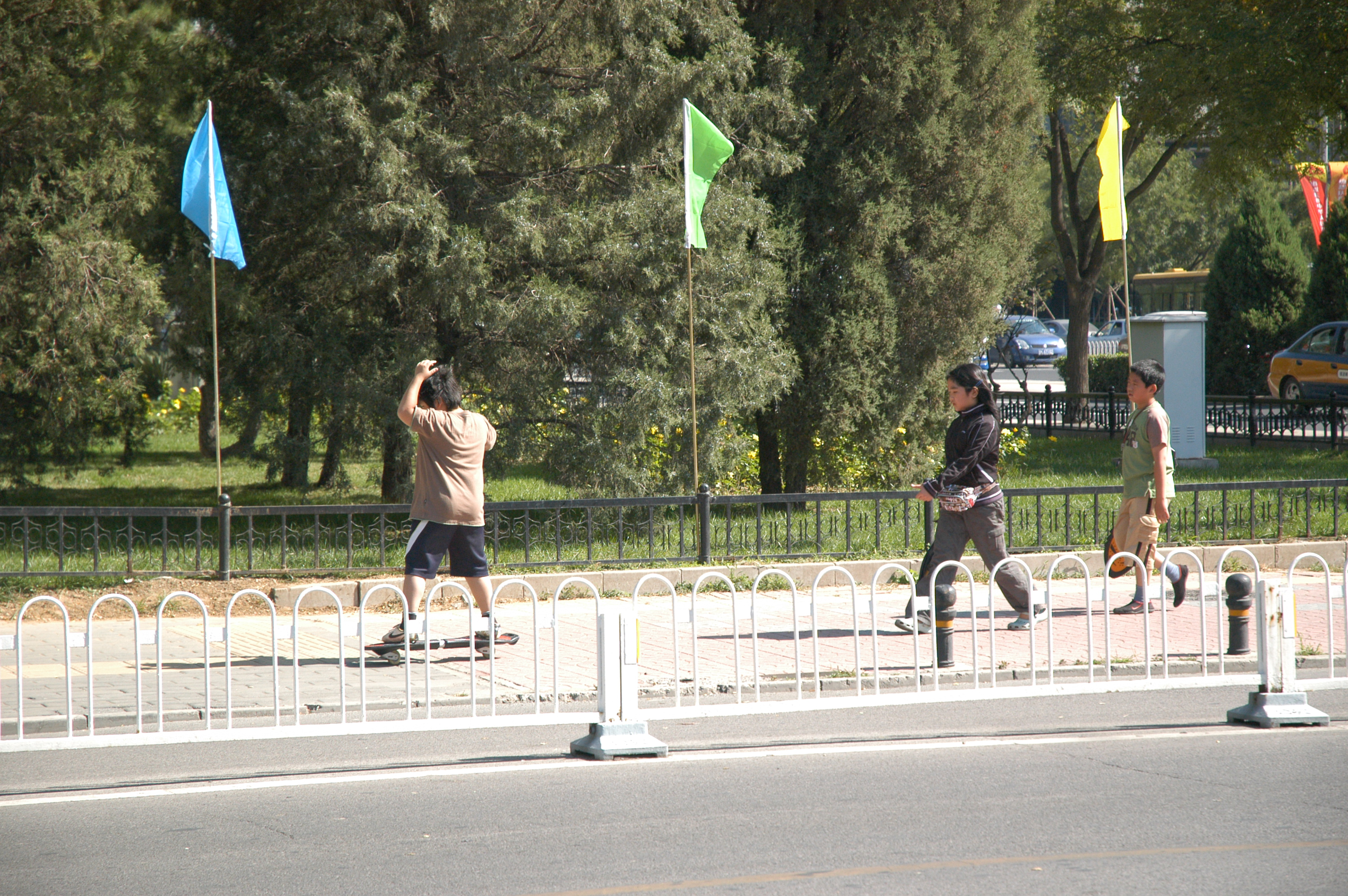 Chinese children on Beijing sidewalk.